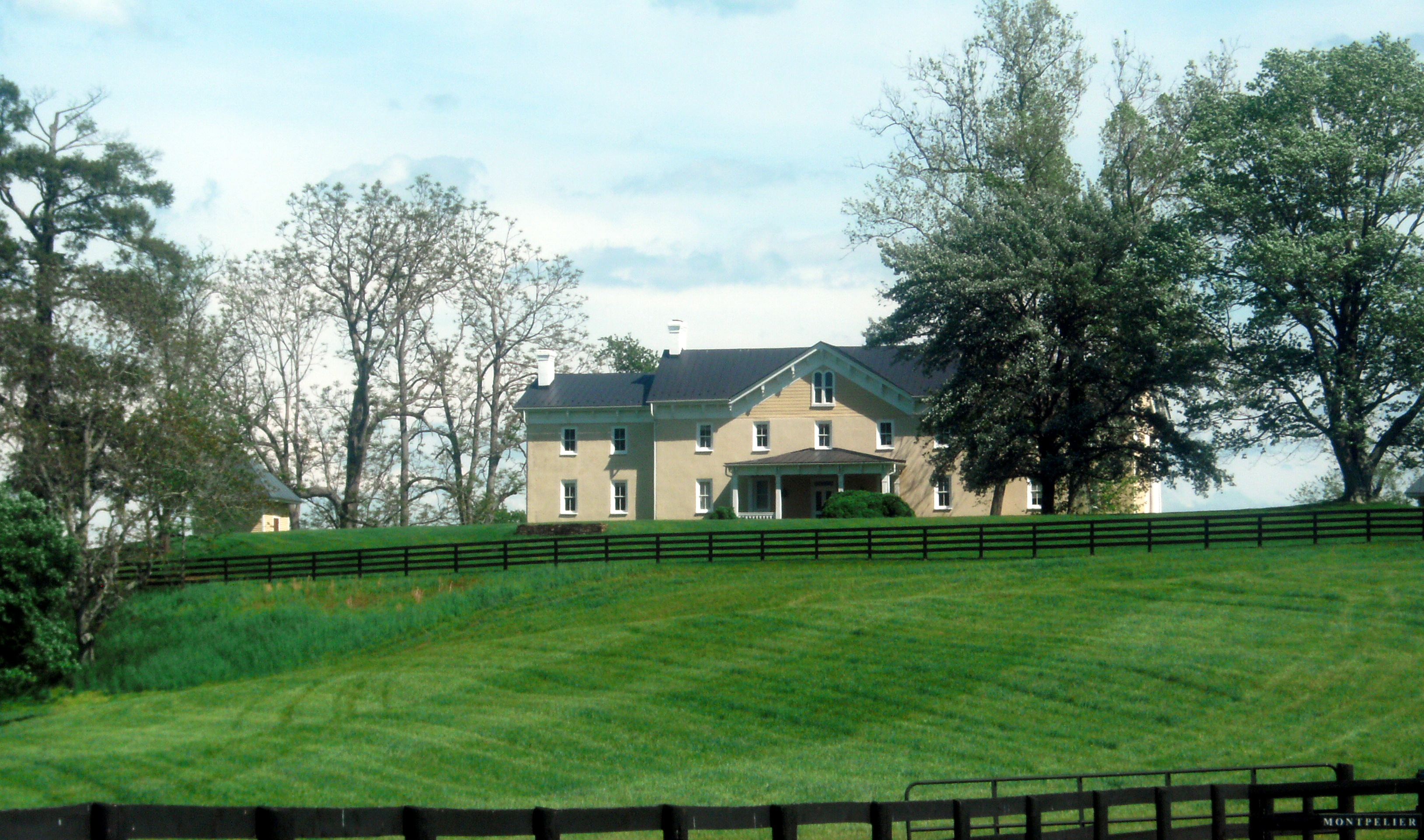 Montpelier house, May 2016